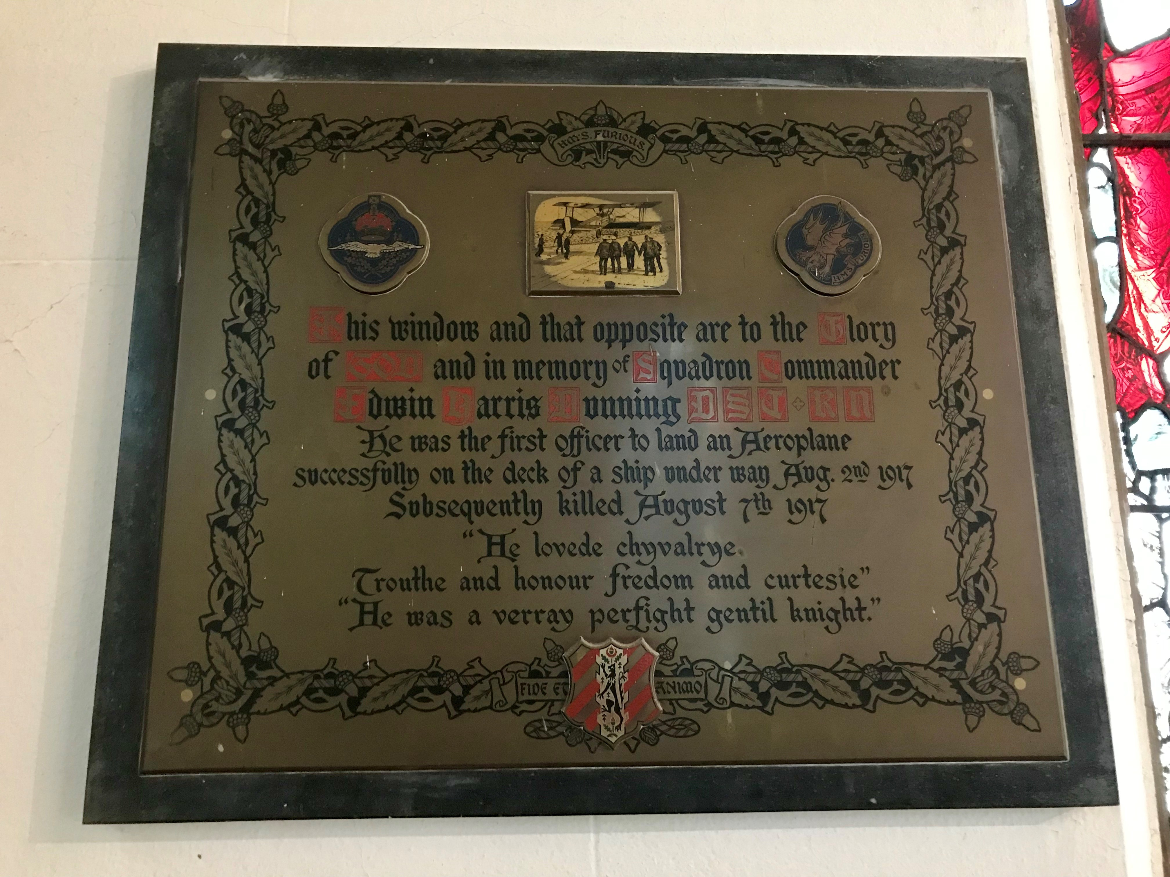 A window memorial plaque to Edwin Harris Dunning in St Lawrence's Church, Bradfield, Essex